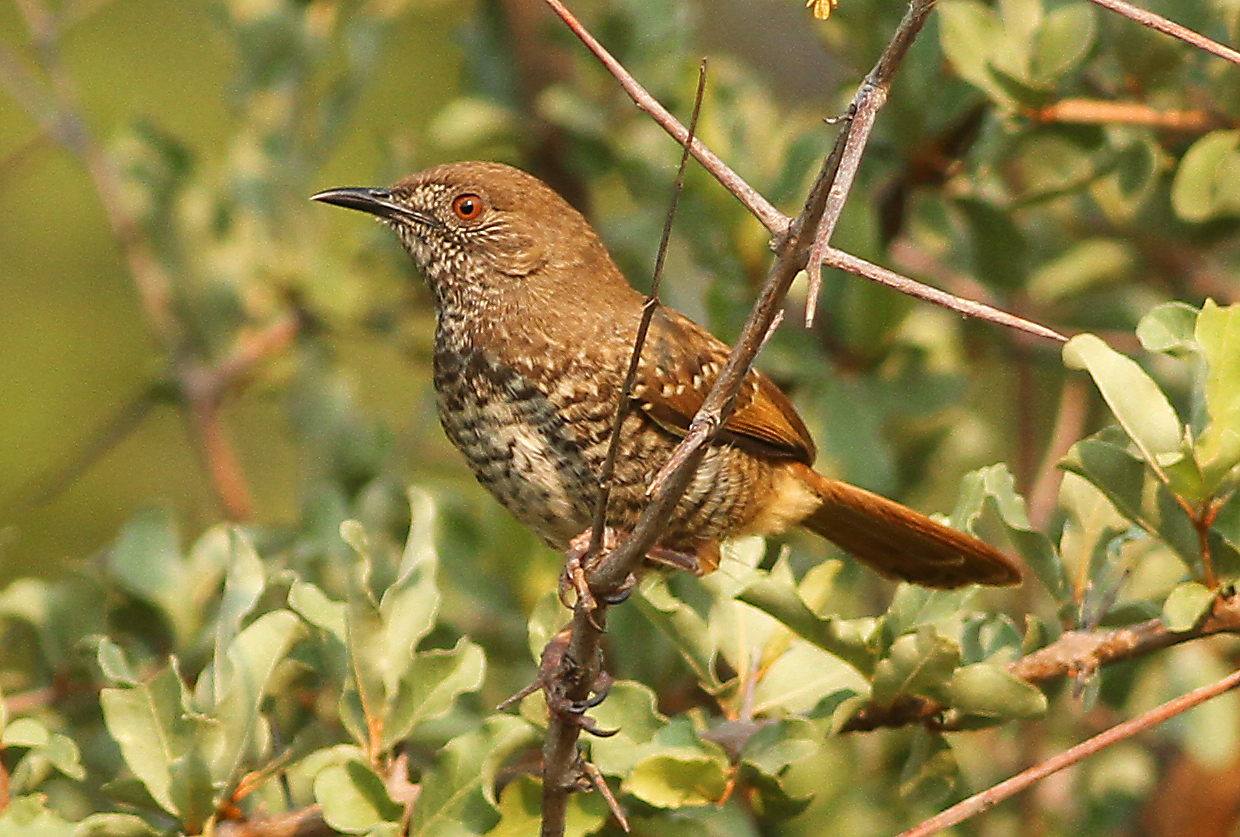 Barred wren-warbler, Calamonastes fasciolatus, at Pilanesberg National Park, Northwest Province, South Africa